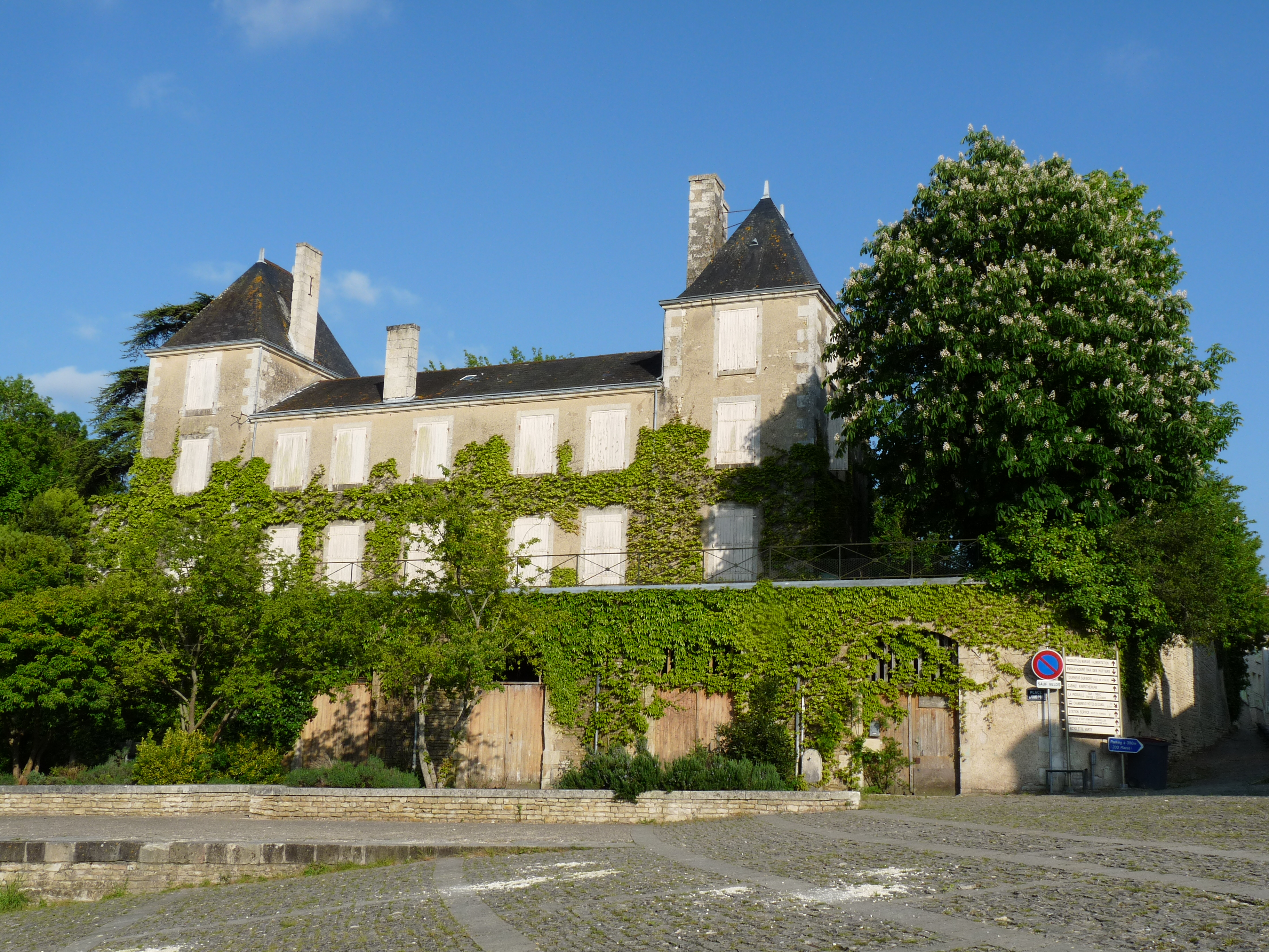 House in Arçais (Deux-Sèvres)